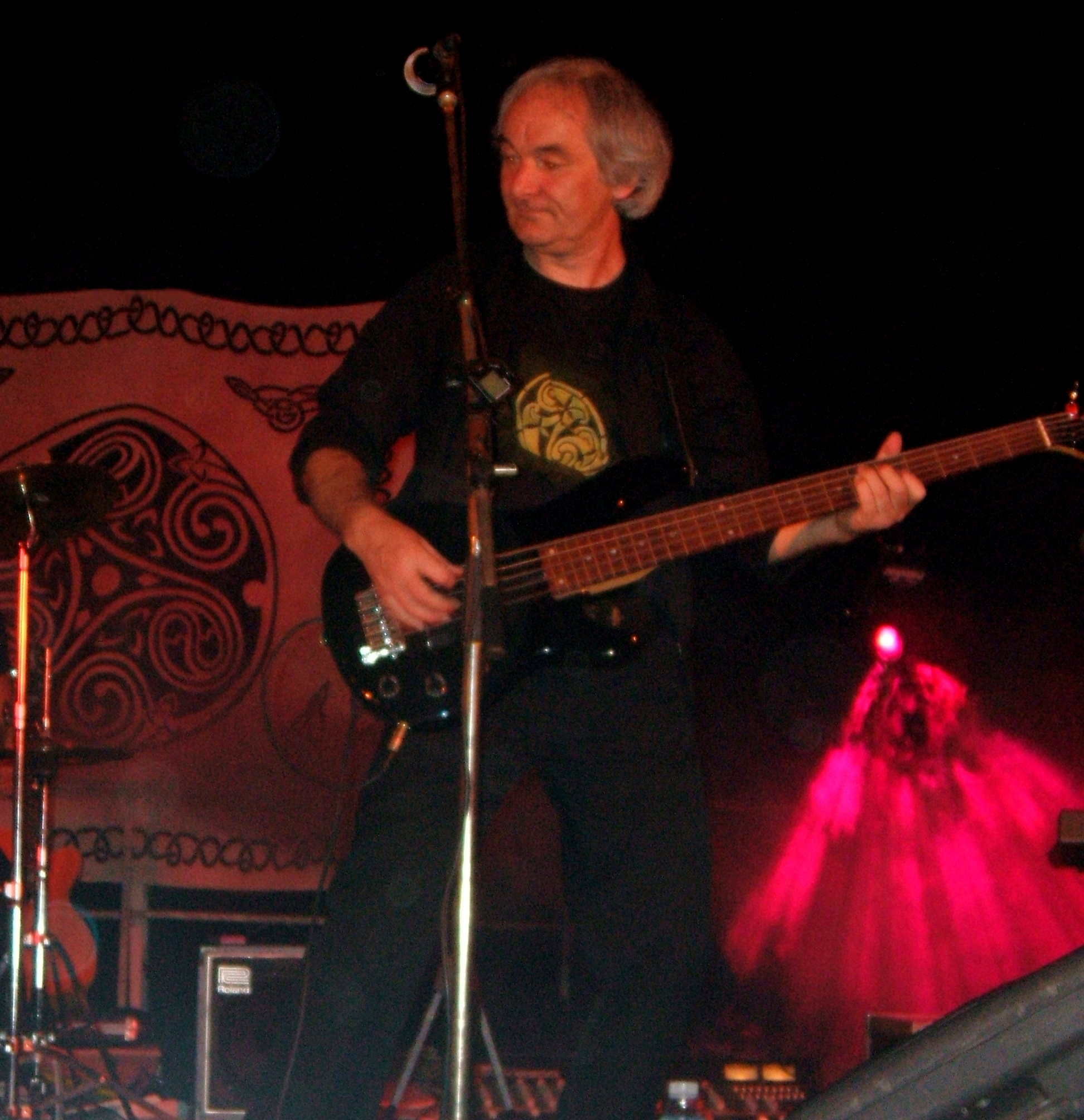 French musician Gérard Jaffrès in concert in Cléder, Bretagne, France.